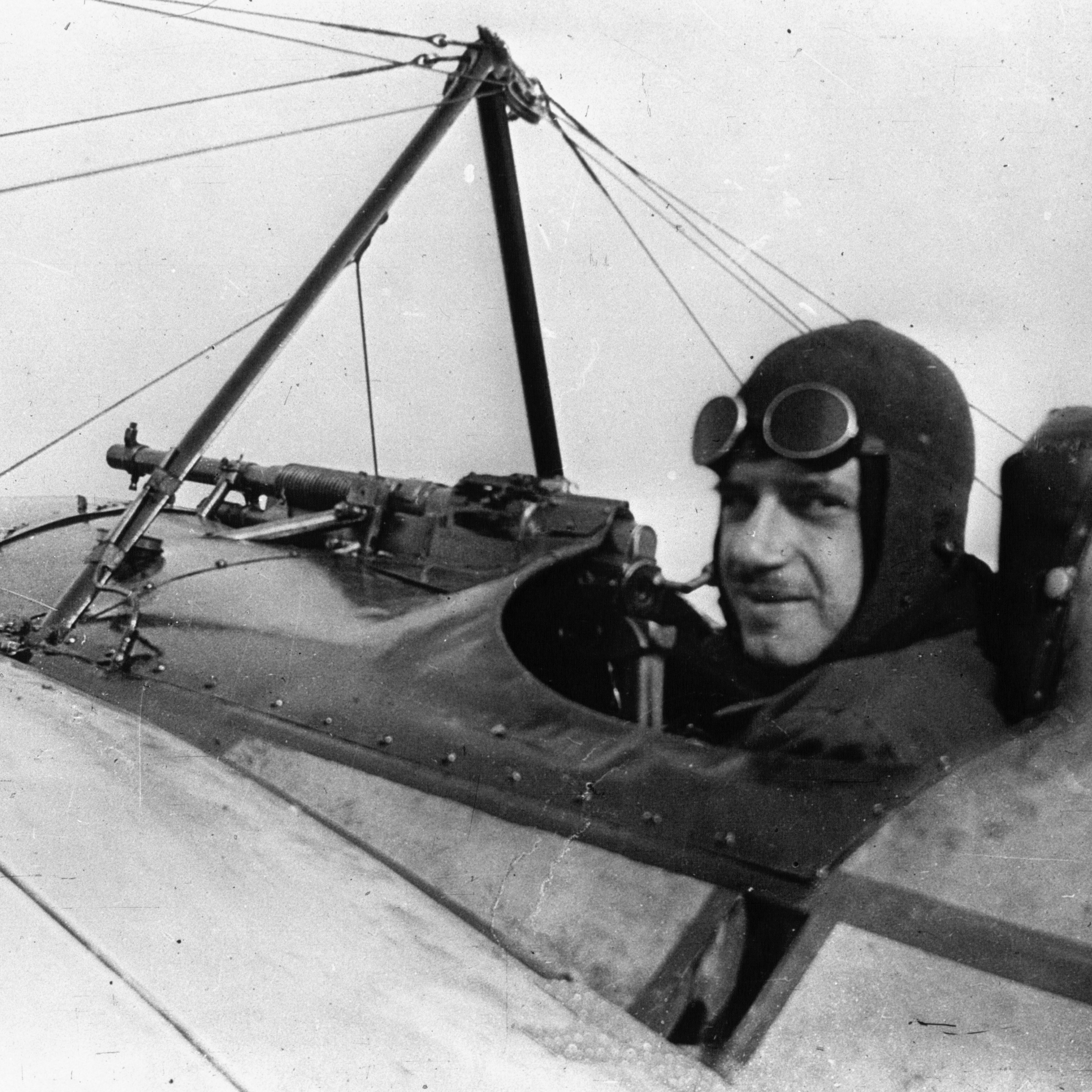 French aviator Eugène Gilbert (1889-1918) in a Morane-Saulnier type N fighter.